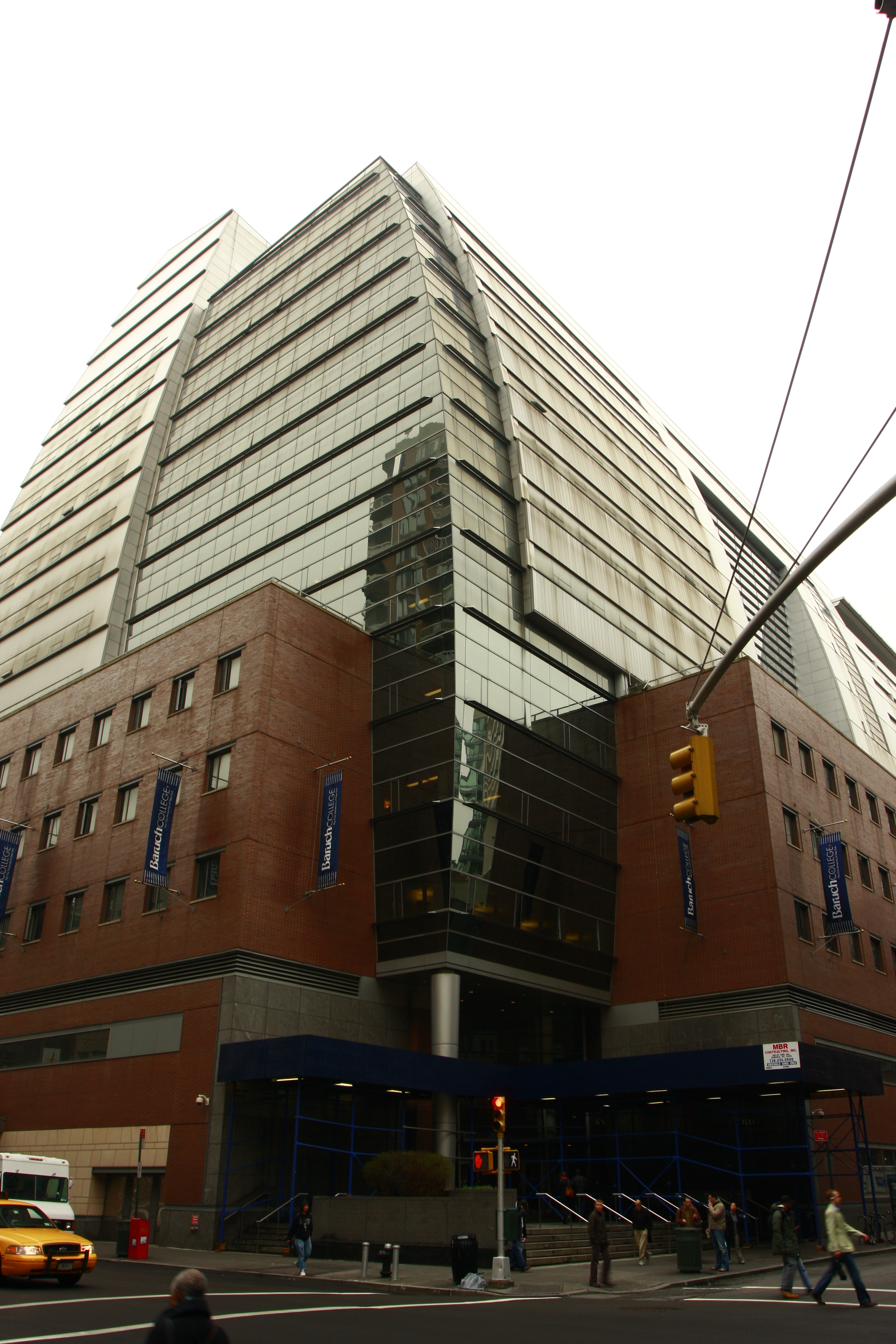 This photo is of Wikipedia Takes Manhattan location code 112, Academic Center, Baruch College.